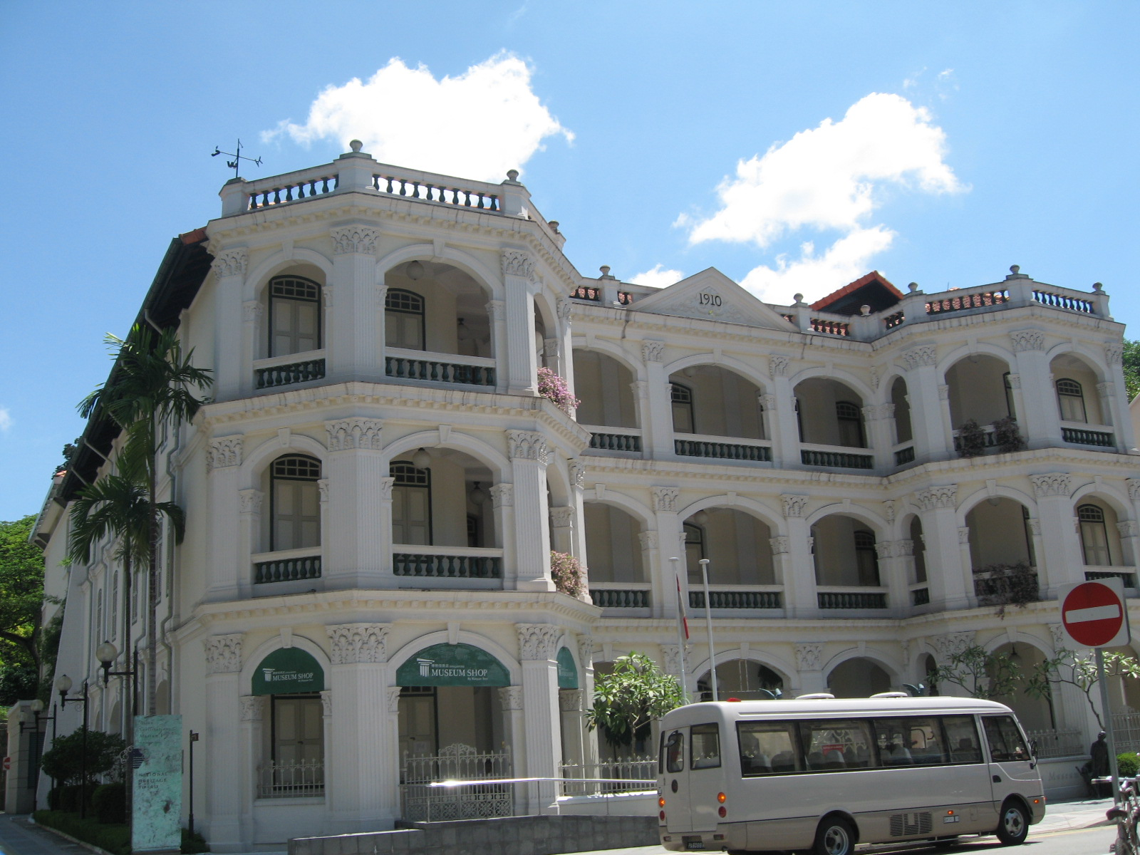 Asian Civilisations Museum, Armenian Street.